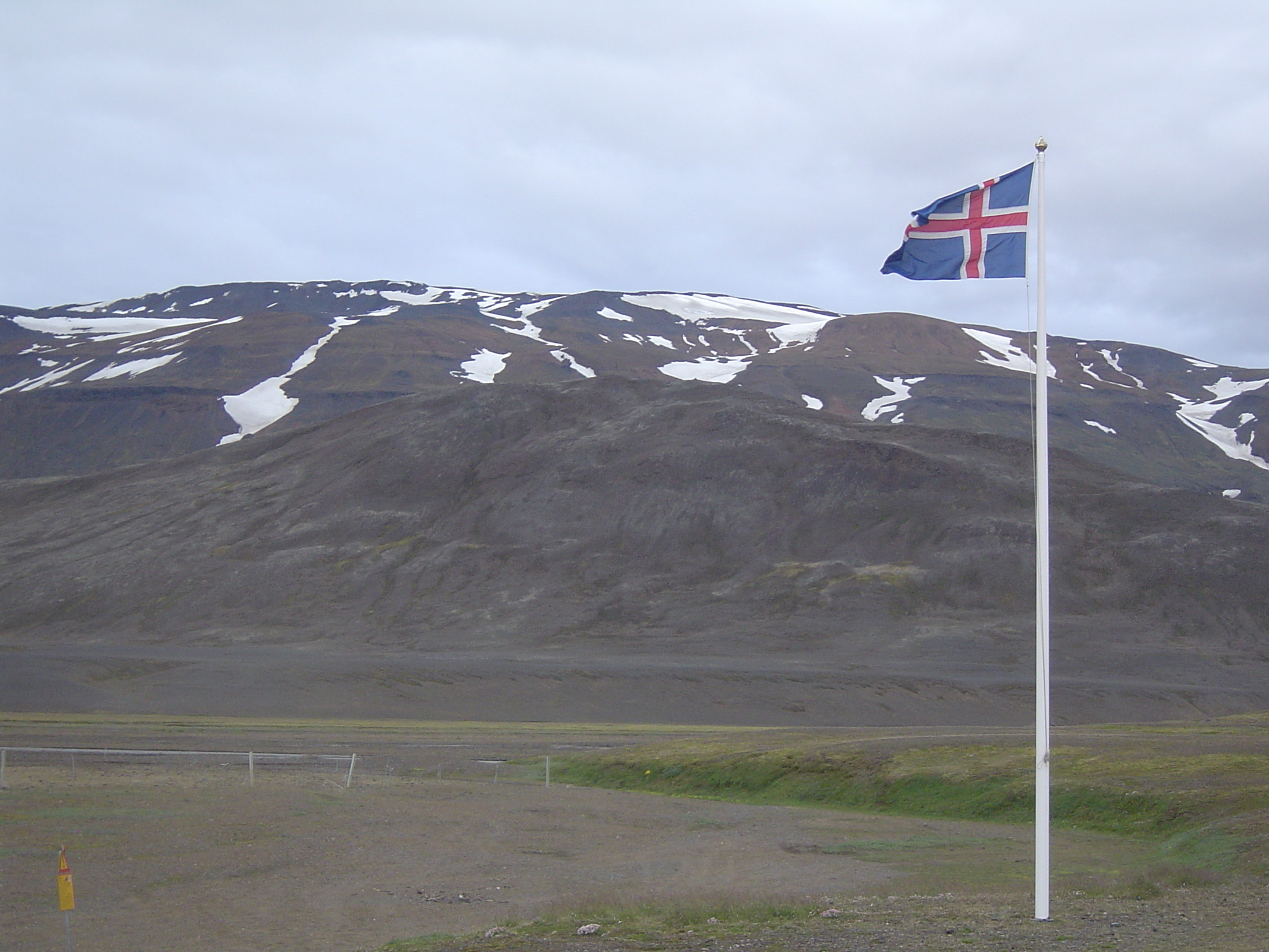 Tungnafellsjökull in Iceland, photographed from the west